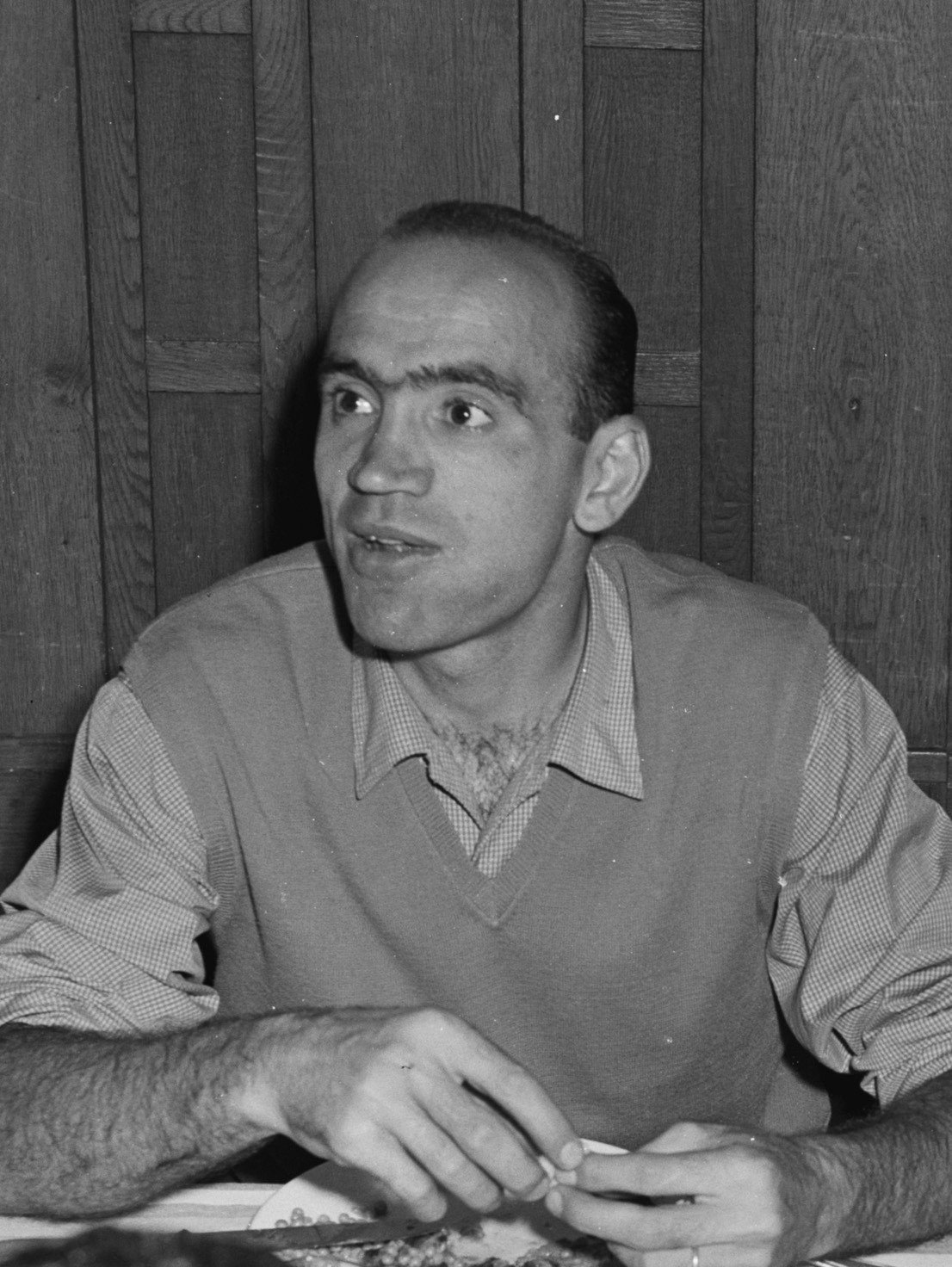 Tour de France 1951, Fiorenzo Magni and Fausto Coppi during meal.